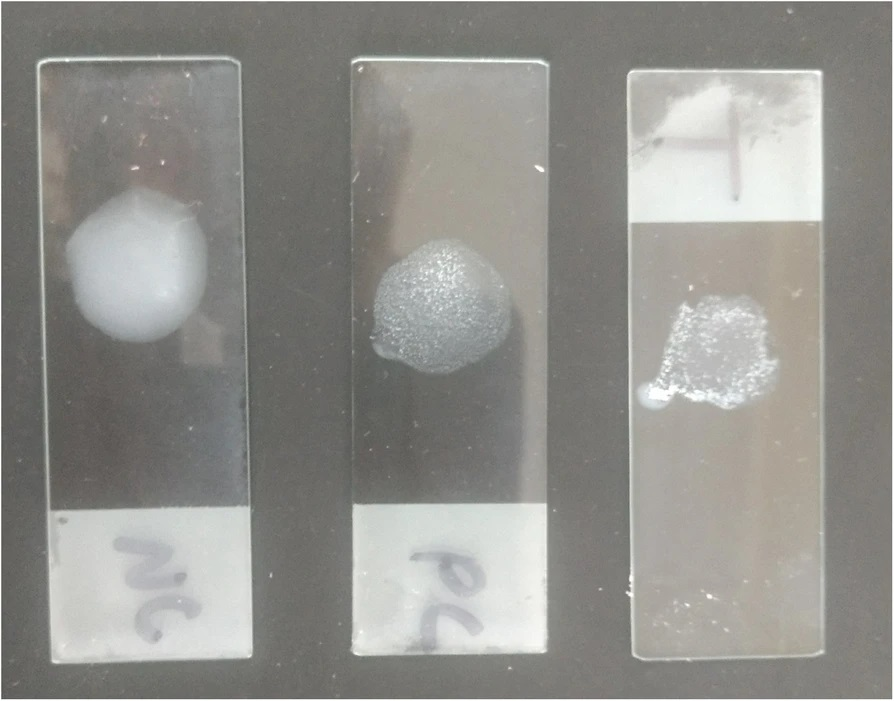 Right most slide/Test slide:Latex agglutination test positive for melioidosis Middle slide: Positive control Left most slide: Negative control